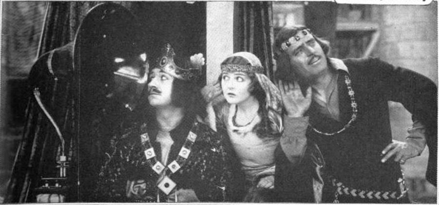 Publicity photo of silent film stars Wallace Beery, Enid Bennett, and Douglas Fairbanks (l to r), in costume for the 1922 film Robin Hood, listening to the horn loudspeaker of a radio in 1923. Radio broadcasting began in 1920 and immediately became very popular; a fascinating new high-tech entertainment in the Roaring 20s. The motion picture industry used radio to promote studio stars such as these. Caption:"If Richard Coeur de Lion had heard a radio would he have looked like that? And Maid Marian made eyes at it? And Robin Hood listened or shot an arrow at it? Anyhow, this is how Wallace Beery, Enid Bennett, and Douglas Fairbanks in those roles lined up before a loud speaker that evidently isn't as loud as it is big - or we hope so, anyway." Alterations to image: Removed aliasing artifacts (crosshatched lines) introduced during scanning of original halftone photo using Gimp FFT filter.